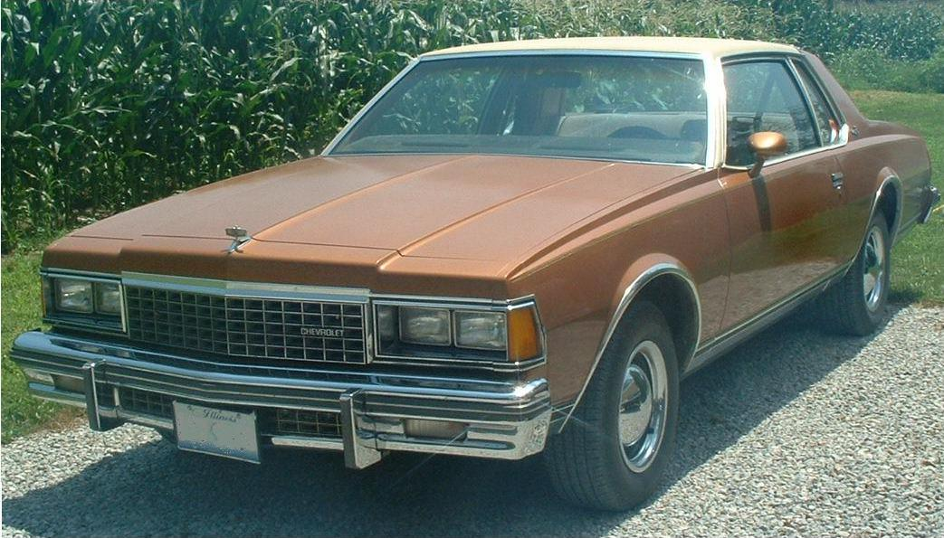 Front view of a 1978 Caprice Landau coupe, which is similar to all 1977-1979 Caprice/Impala coupes.